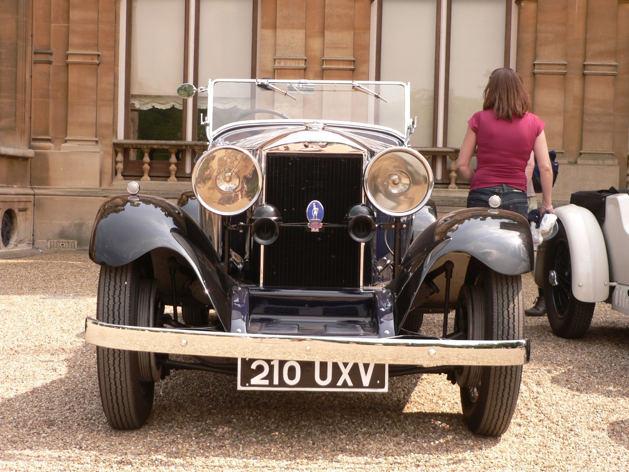 Invicta 4½-Litre probably Series 'A' High Chassis Tourer (DVLA) manufactured 1933 4467cc